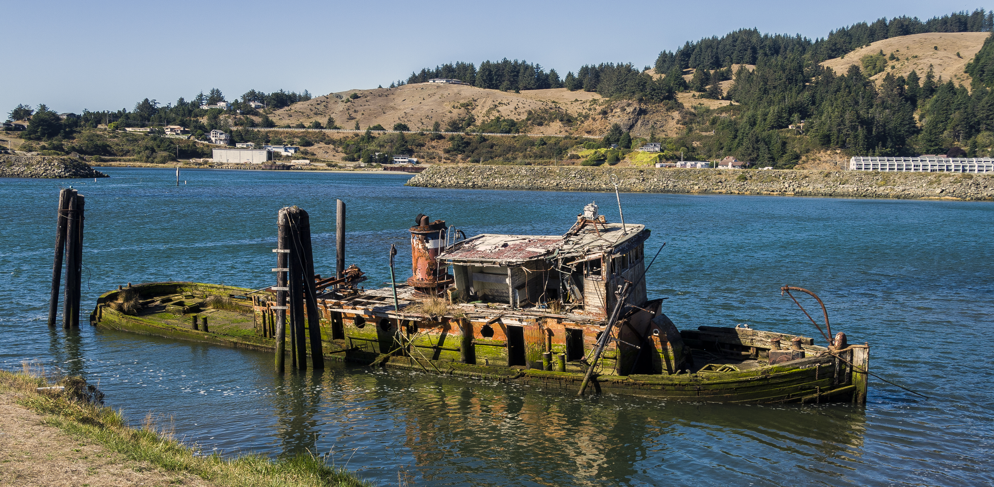 The Mary D. Hume steamboat, abandoned at Gold Beach, Oregon, USA.